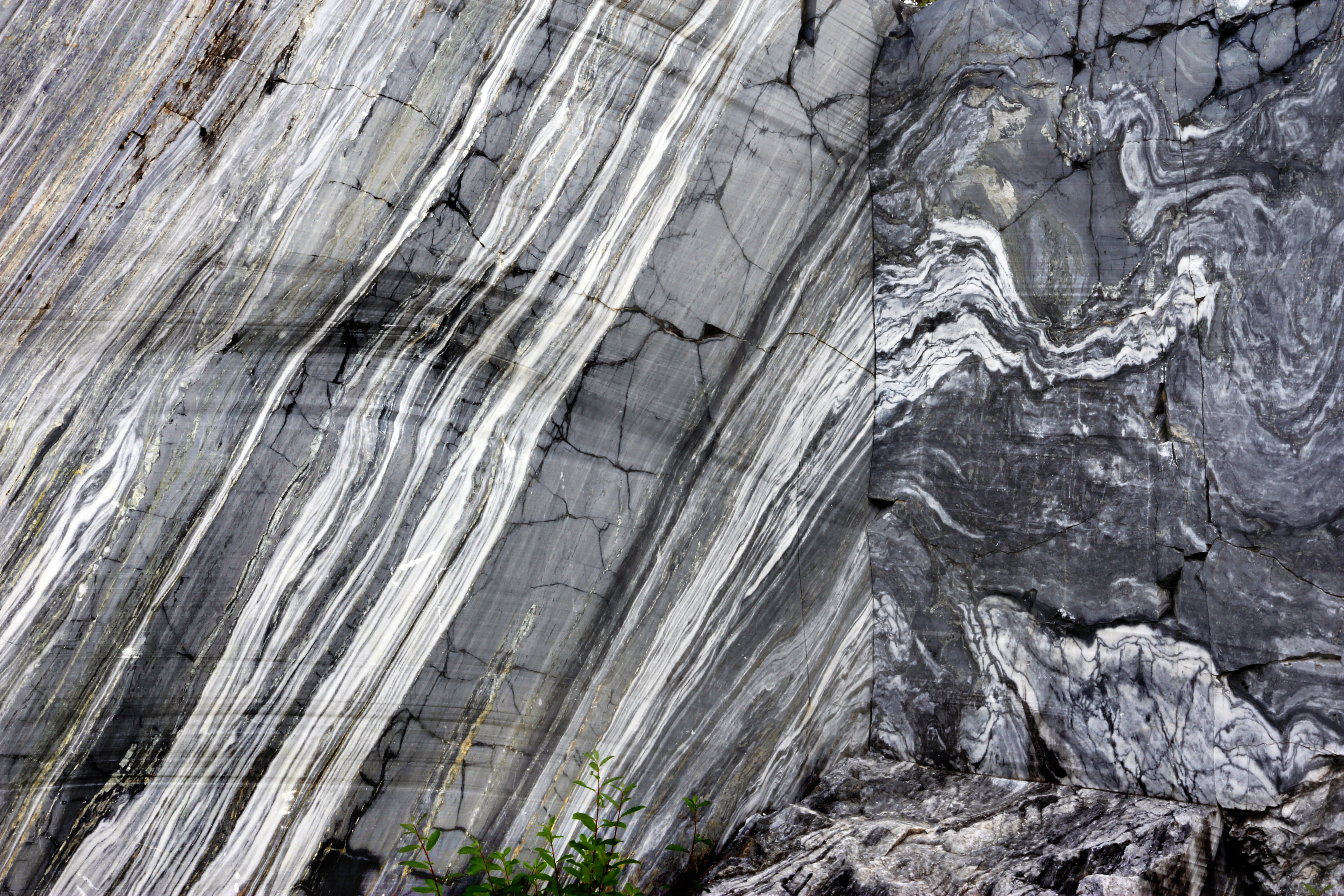 Marble wall of Ruskeala.Republic of Karelia, RussiaEesti: Marmorisein Ruskeala mahajäetud karjääris.Karjala,Venemaa